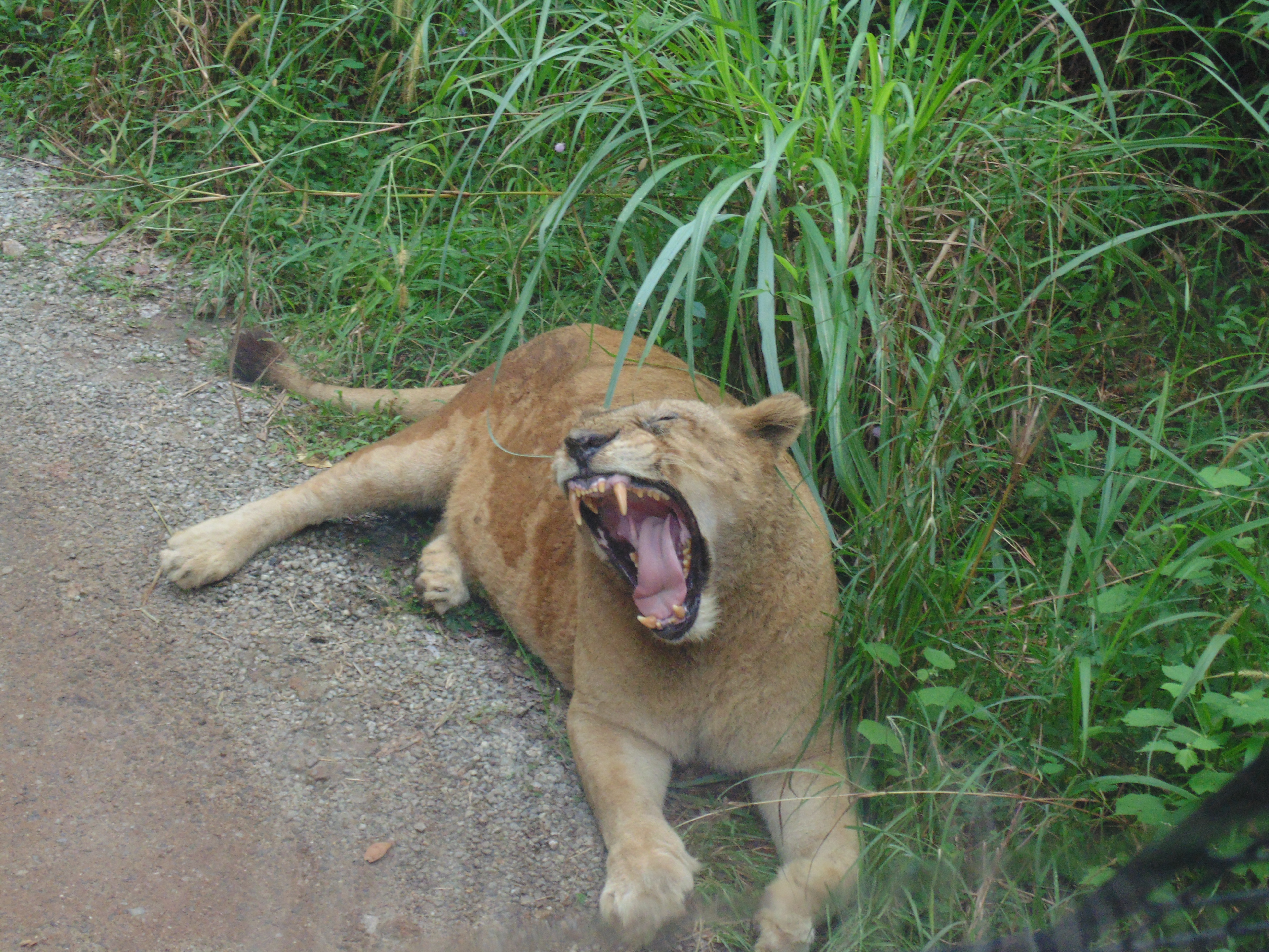 A Lion Yawning